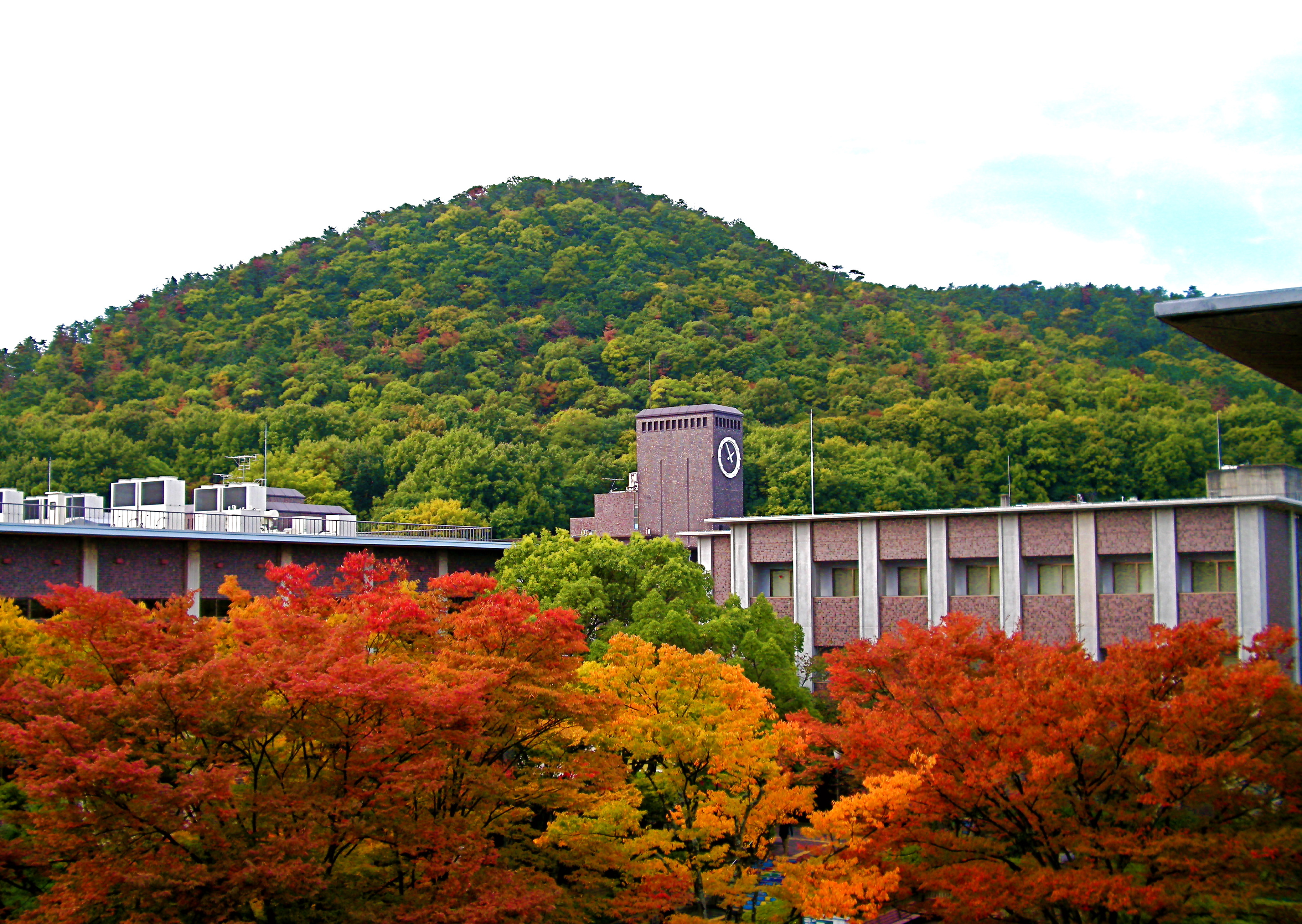 Kinugasa Campus and Mount Kinugasa (Ritsumeikan University, Kyoto, Japan)